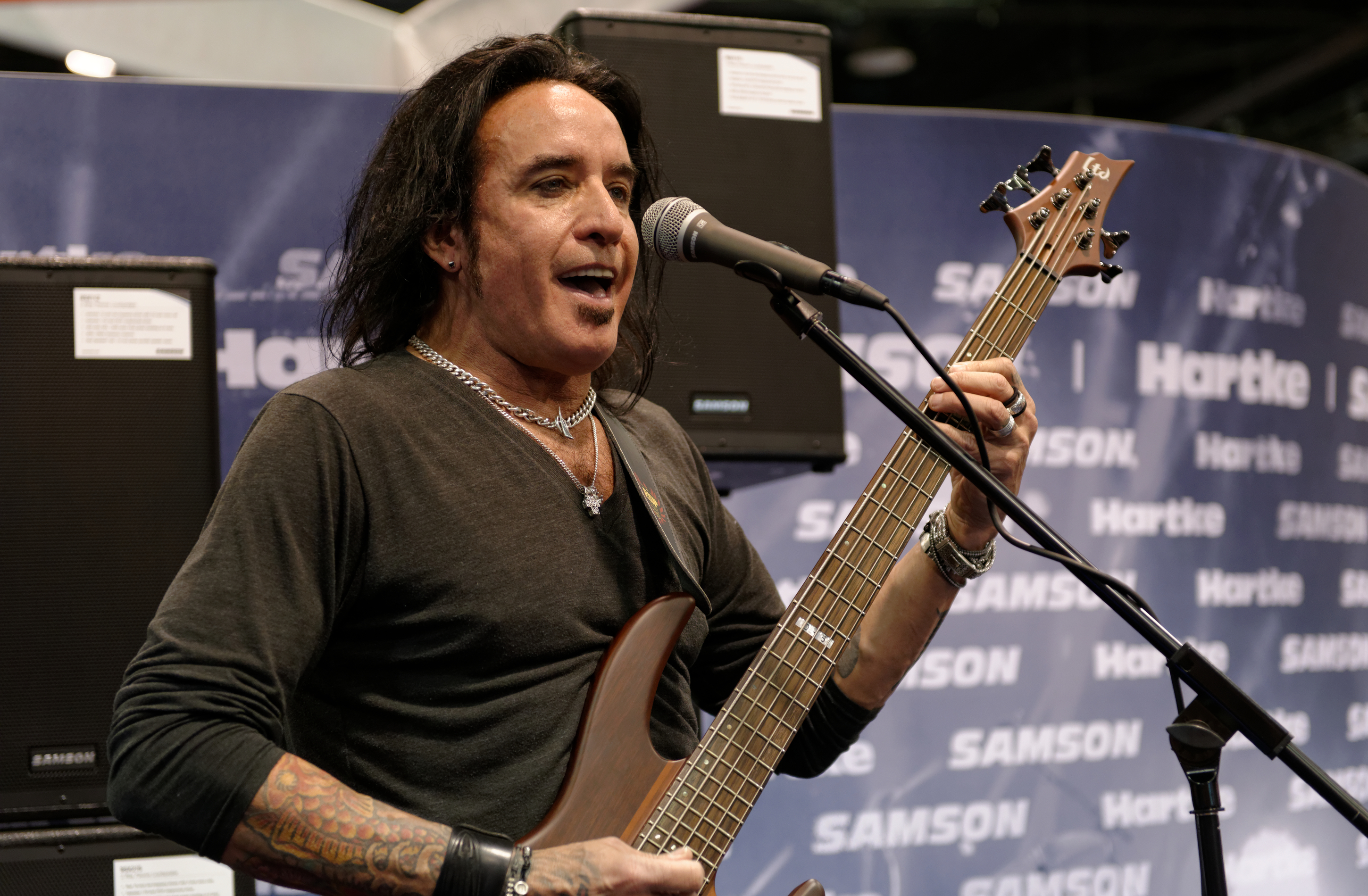 Marco Mendoza performing live at the Samson/Hartke booth. Day 1 (January 23rd, 2014) of the Winter NAMM Show in Anaheim California.